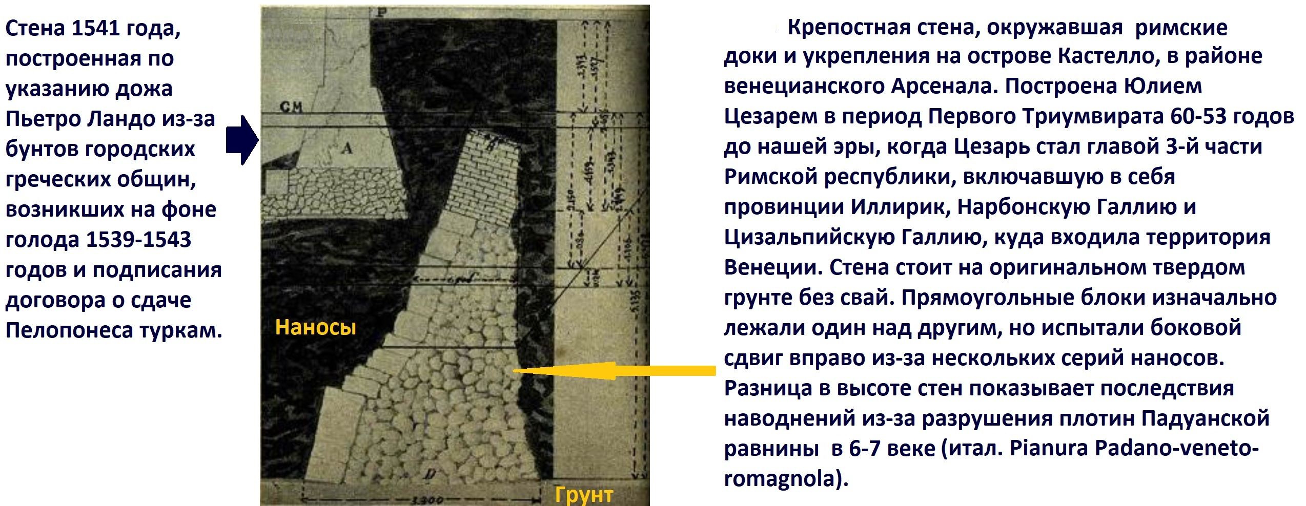 Wall of Julius Caesar fortress in Venice, built during the first triumvirate